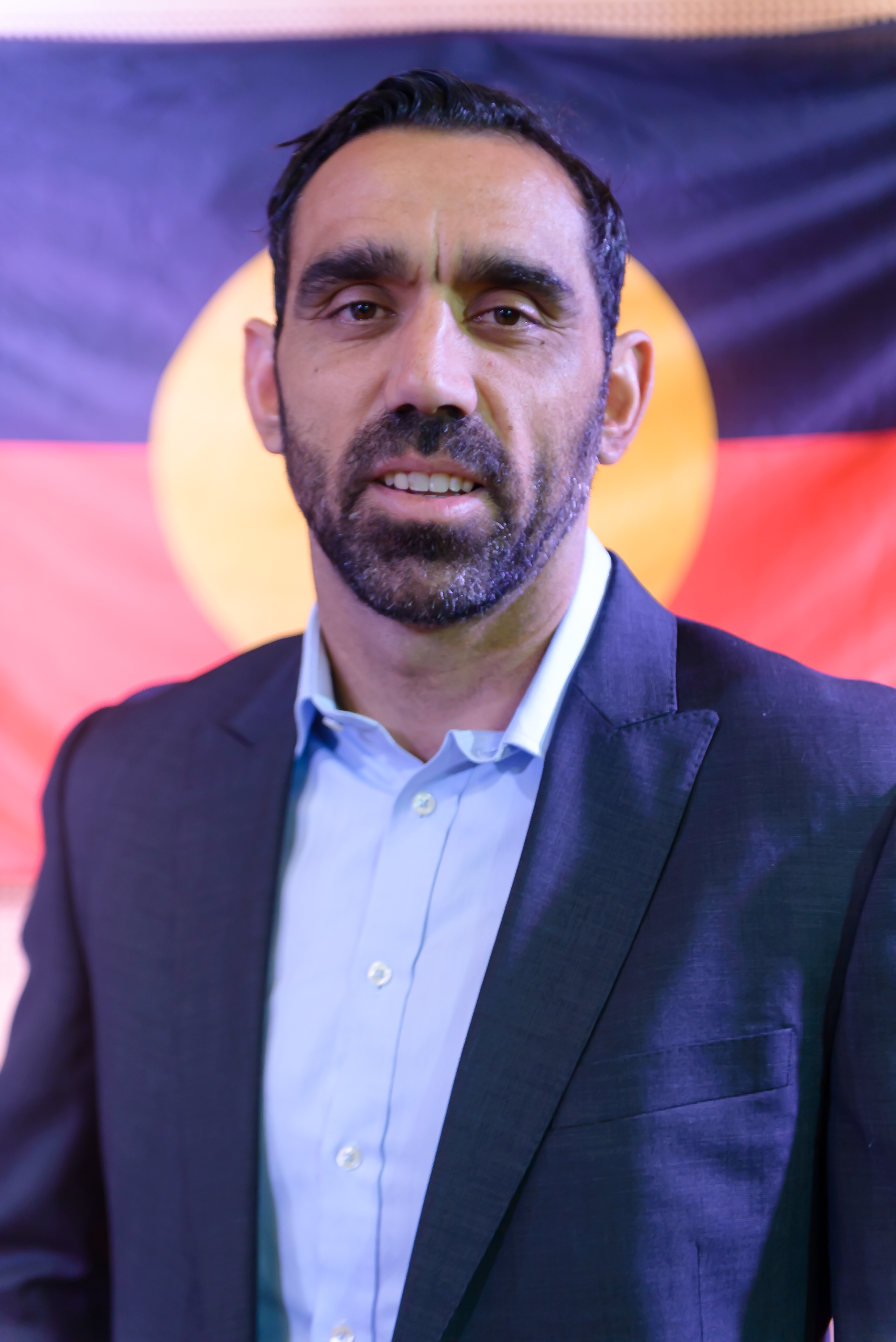 Recognise Campaign Adam Goodes Presser